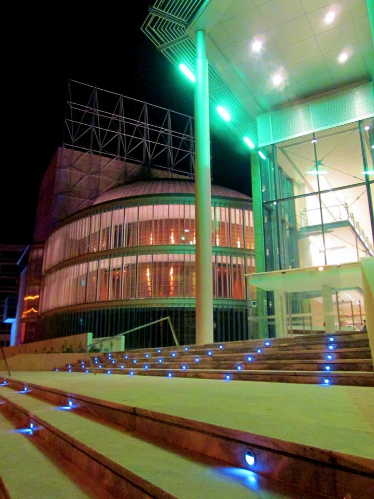 Music Hall Arena of Nicosia by night Republic of Cyprus